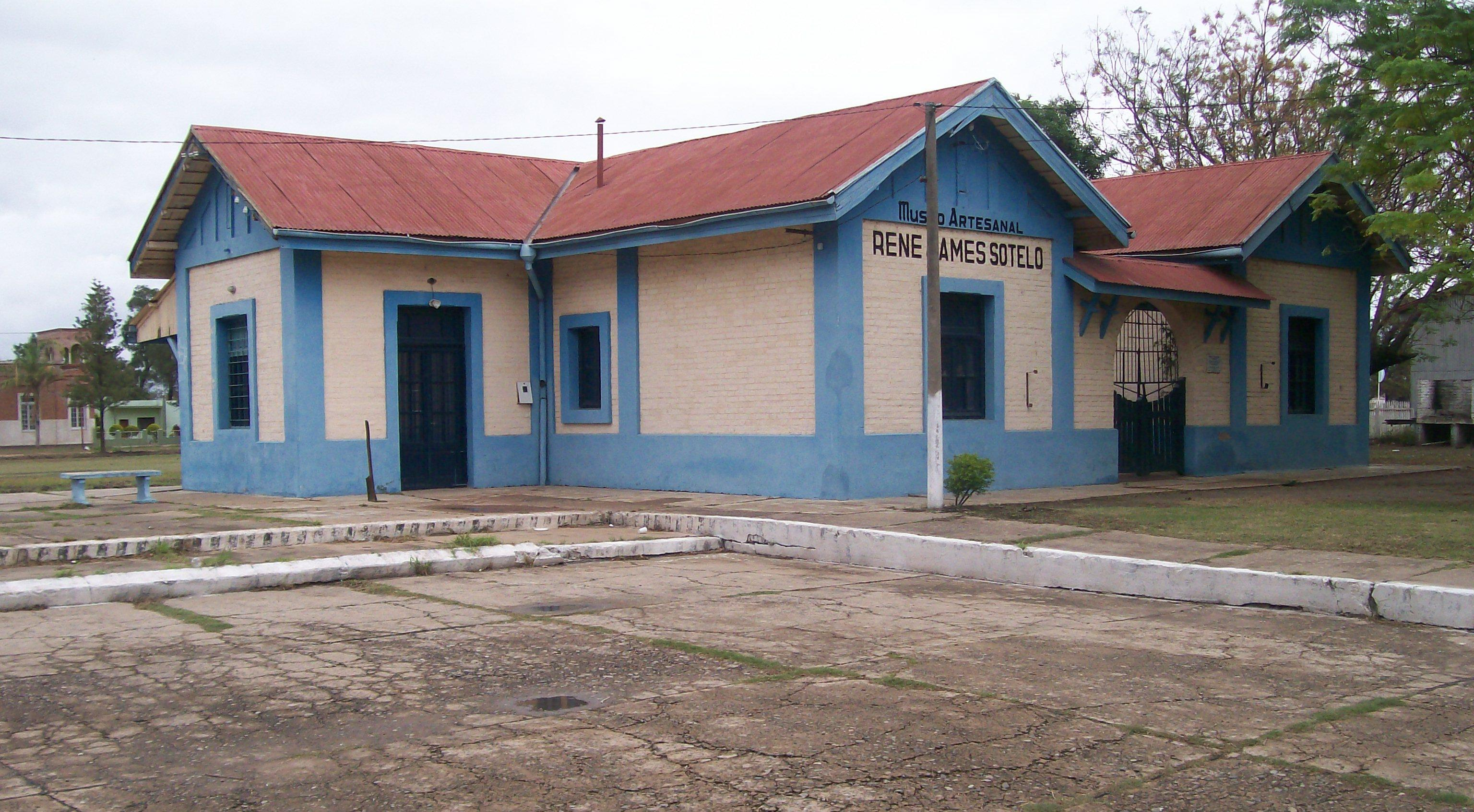 Train station (Belgrano Railway) in Quitilipi, Chaco Province, Argentina. Currently is a handcrat museum.